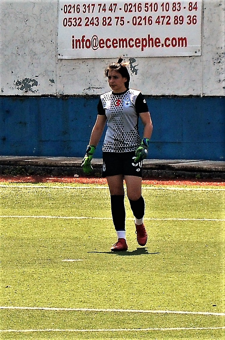 İrem Damla Şahin of Konak Belediyespor in the 2018-19 Turkish Women's First League's away match against Ataşehir Belediyespor.